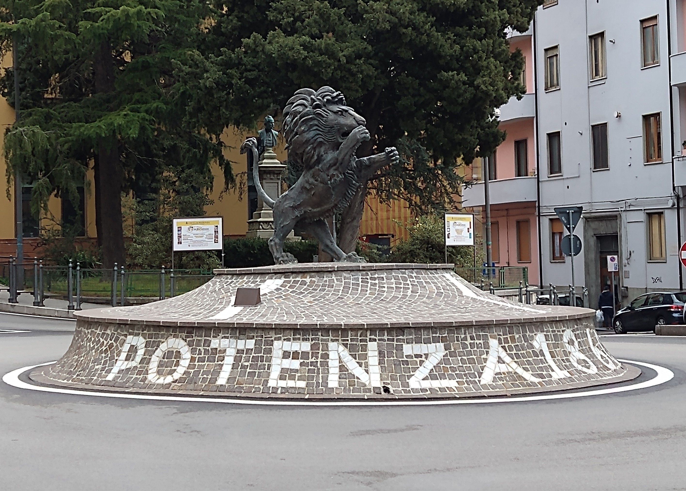 The Rampant Lion statue, Potenza, Italy